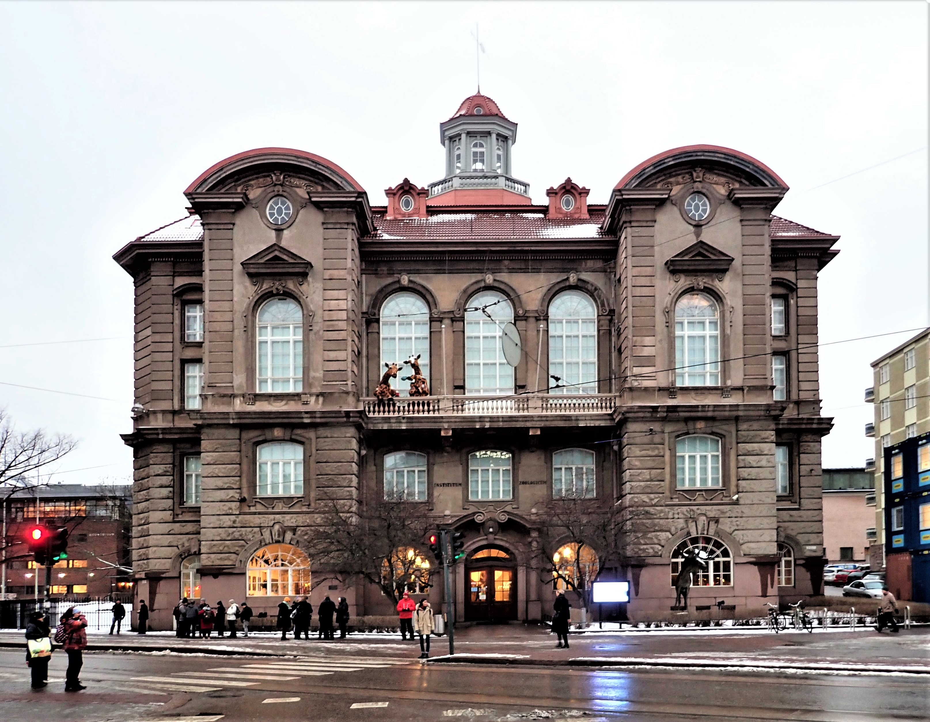 Natural History Museum of Helsinki in December 2018.